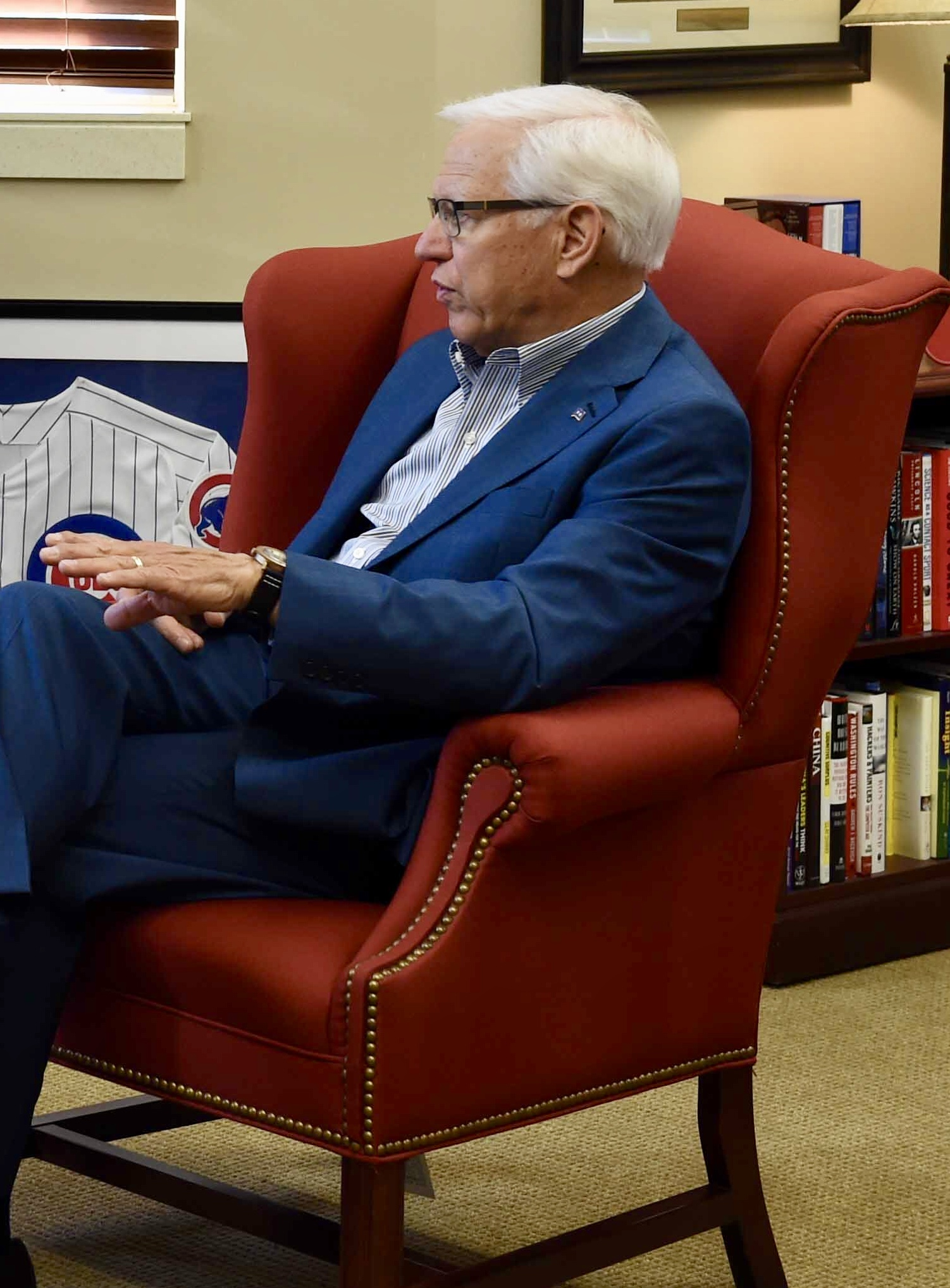 Kustra in 2016